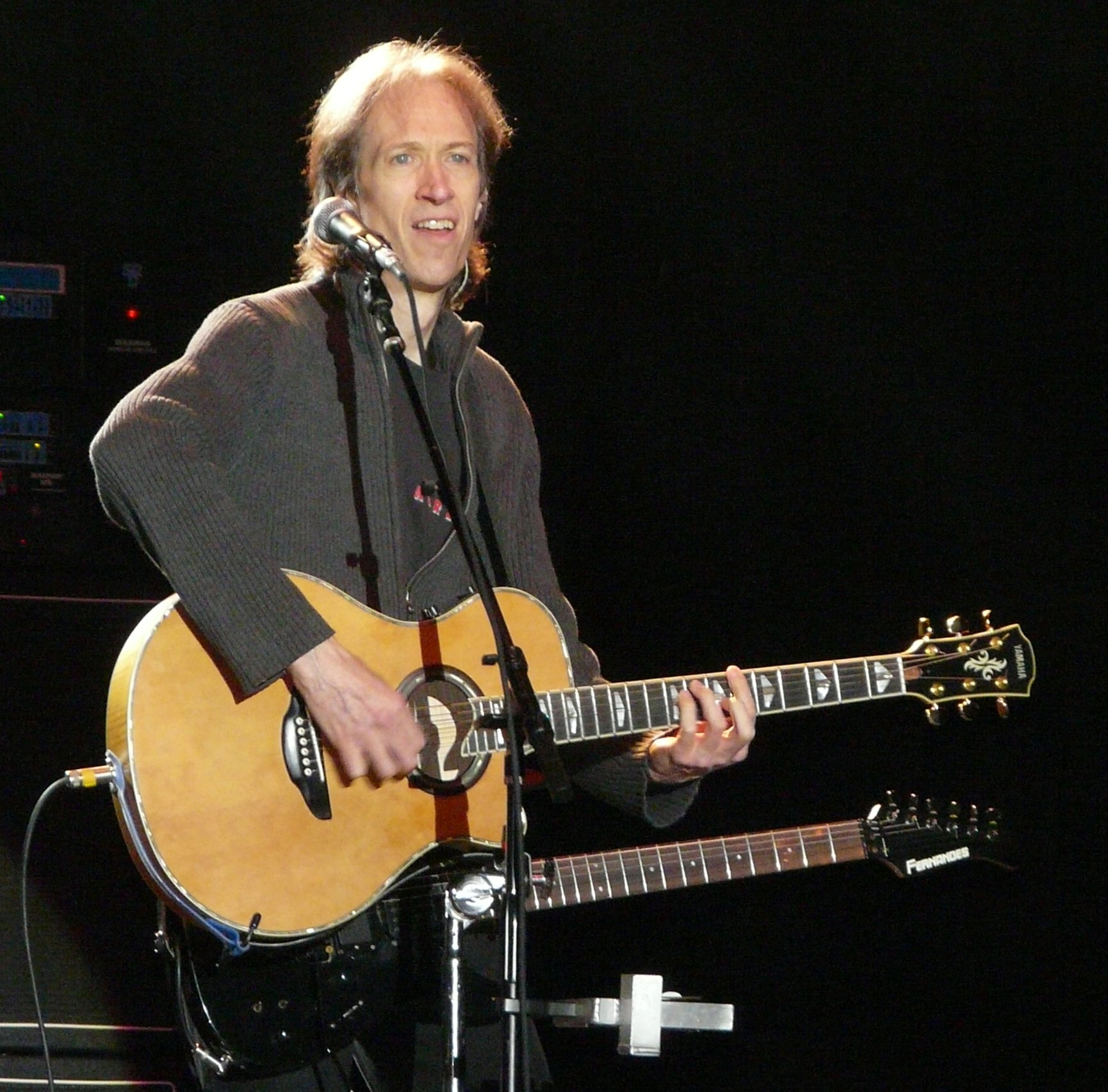 GARY PIHL of BOSTON PHOTO BY MATT BECKER Taken on June 13, 2008 at the Grand Casino in Hinckley, MN